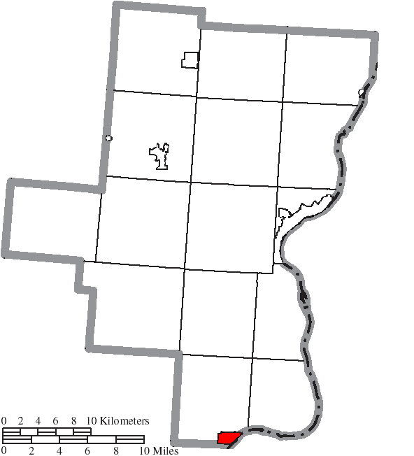 Map of the municipal and township boundaries of Gallia County, Ohio, United States, as of the 2000 census, with the location of the village of Crown City highlighted. Township borders are shown only in unincorporated areas in order to differentiate incorporated and unincorporated areas more clearly.